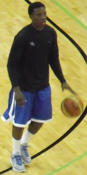 Eric Bledsoe warms up before an exhibition game against the Dominican Republic National Team at the Yum! Center in Louisville, Kentucky.